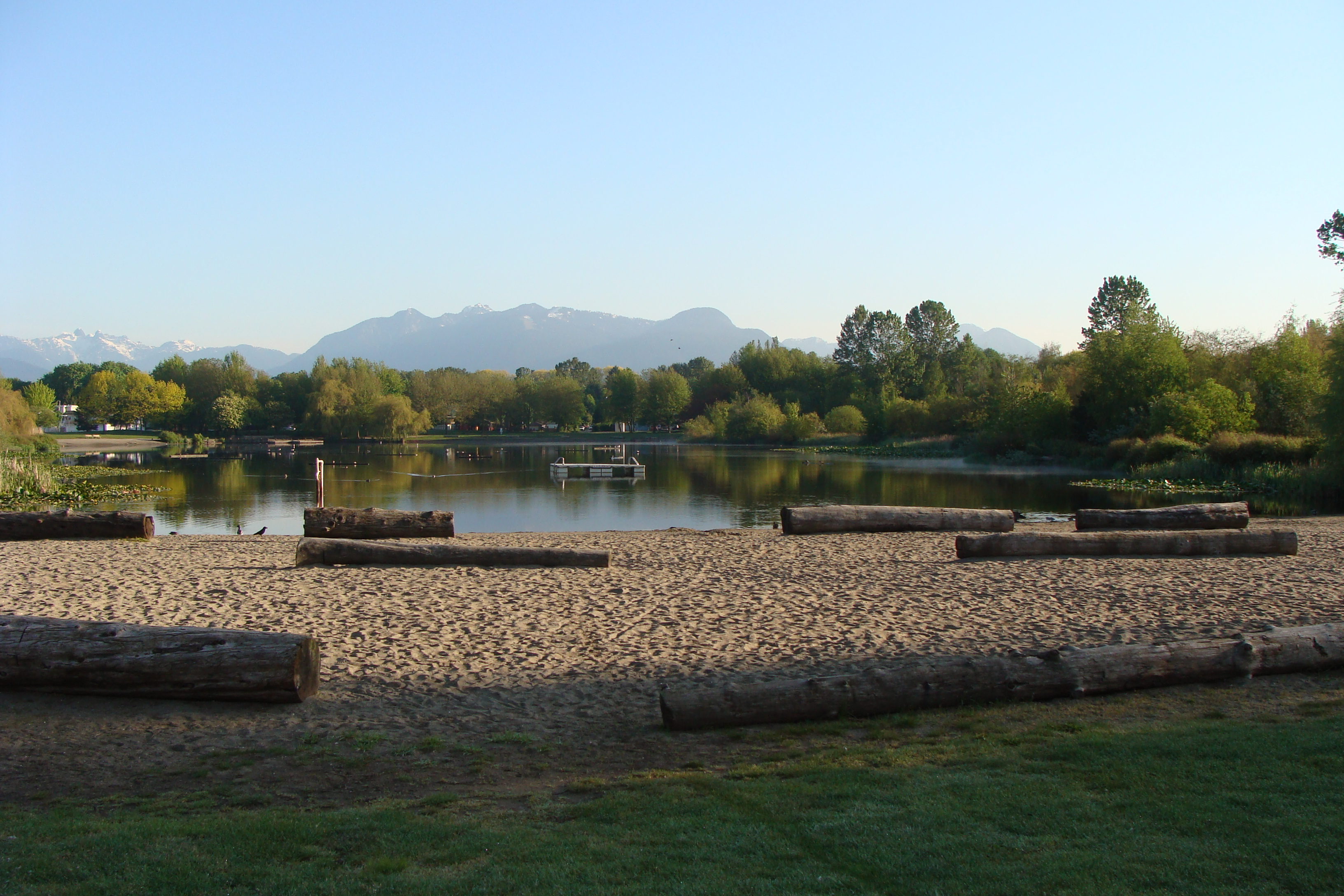 Trout Lake beach, Vancouver.